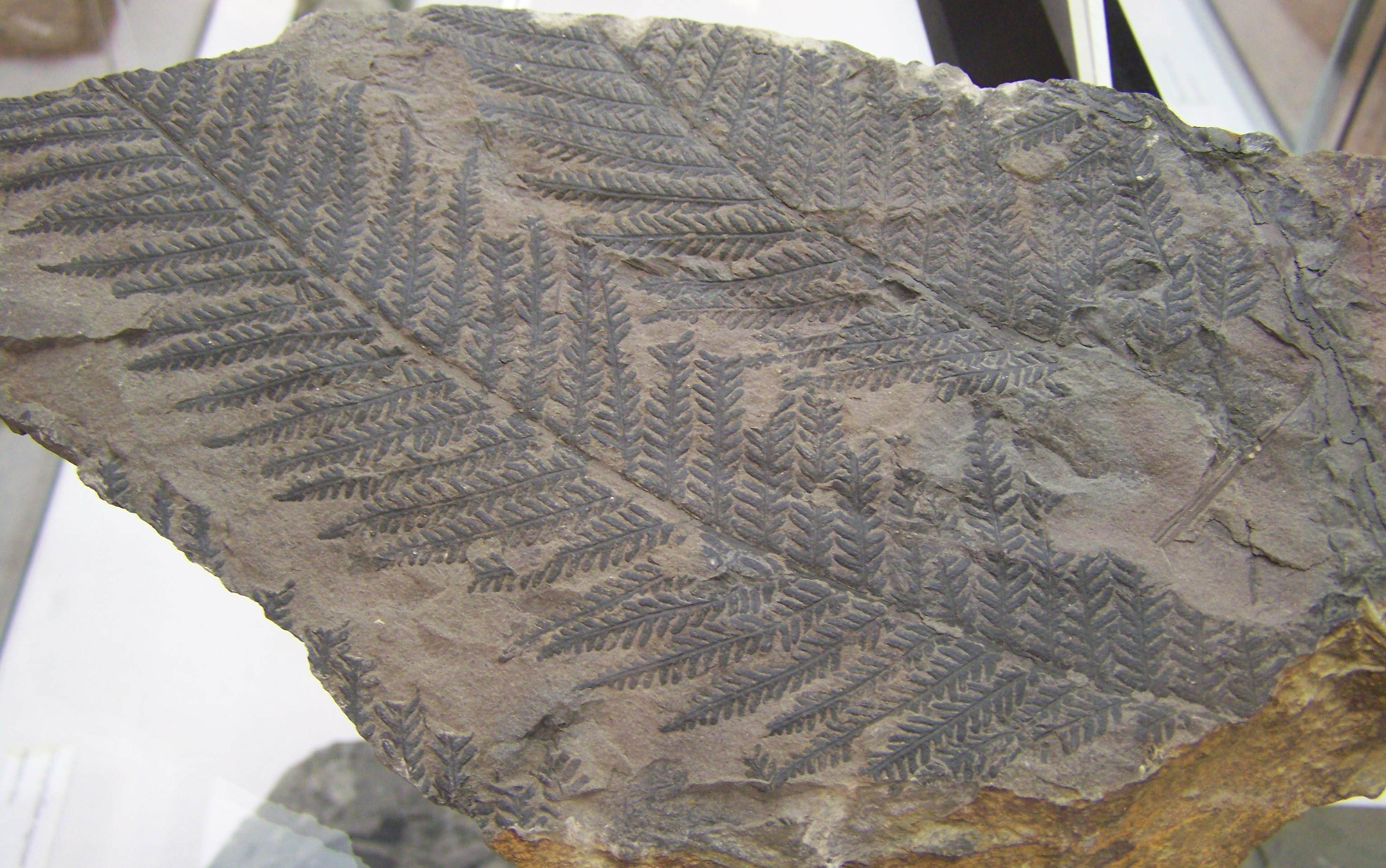 Fossil leaves of the plant species Senftenbergia plumosa, Upper-Carboniferous. Specimen ca 40 cm in width, collection of the Universiteit Utrecht.